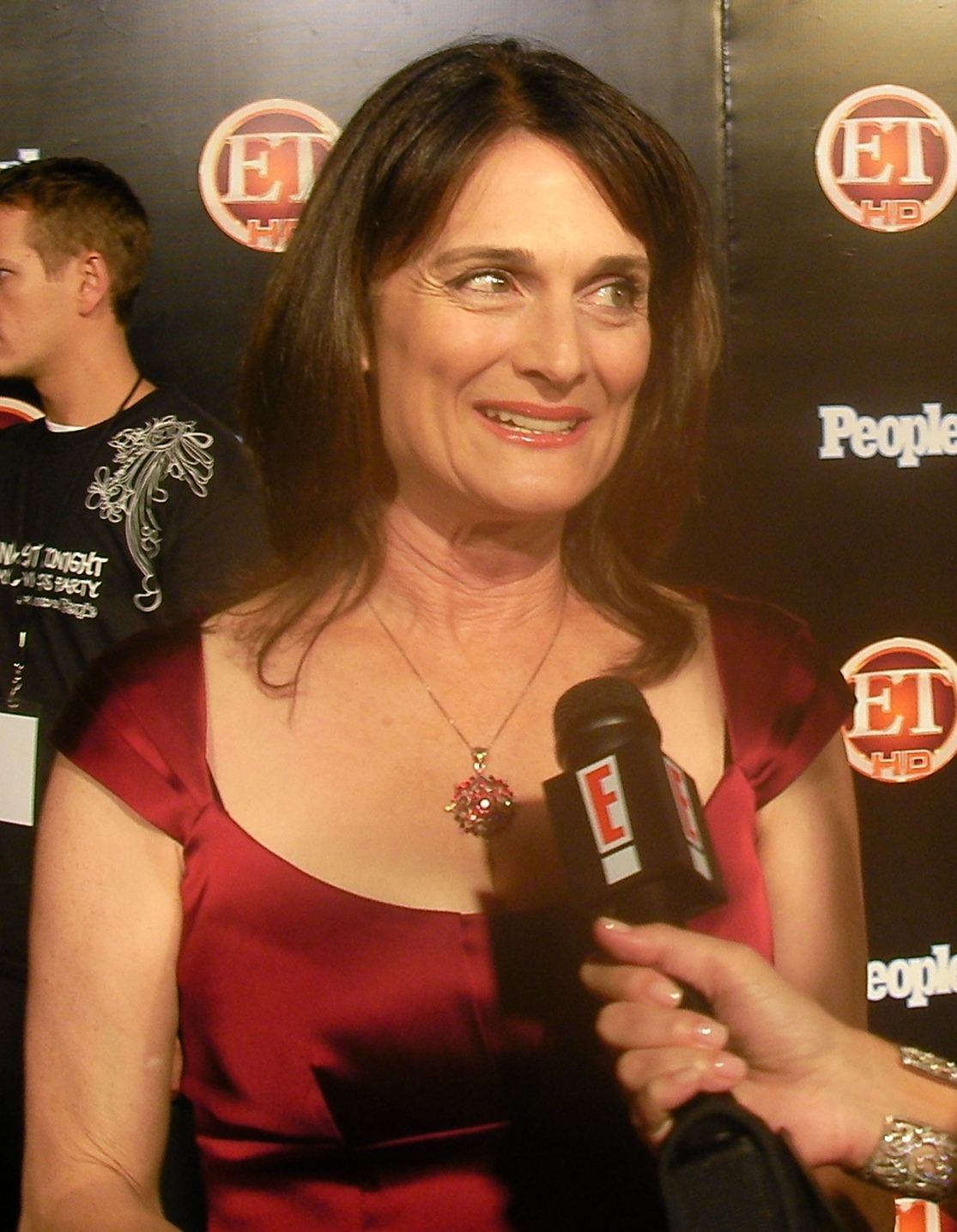 ET Post-Emmys Party, Walt Disney Concert Hall, Sept. 21, 2008